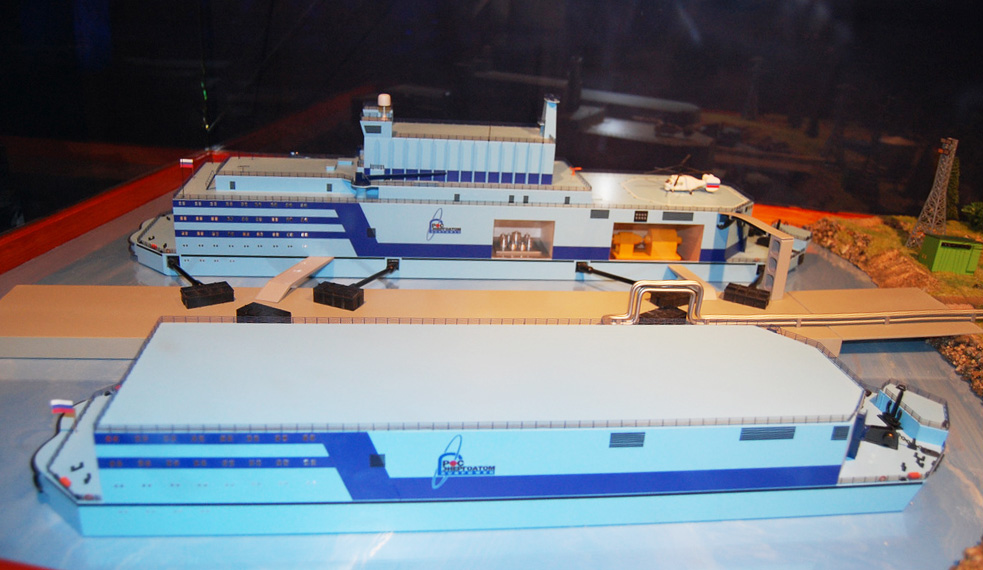 Model of a Floating Nuclear Heat and Power Plant from Rosenergoatom